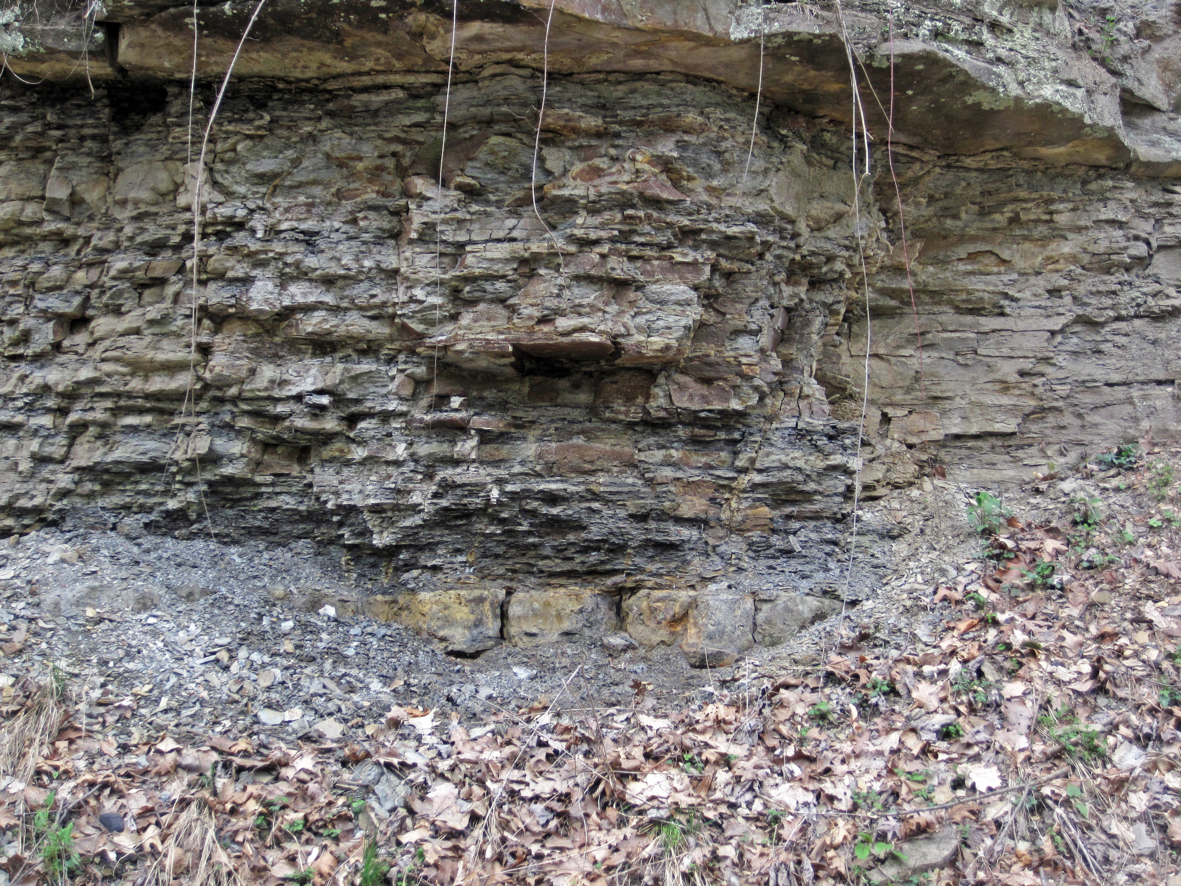 The Pottsville Group is a Pennsylvanian-aged cyclothemic succession containing nonmarine shales, marine shales, siltstones, sandstones, coals, marine limestones, and chert ("flint"). The lower Pottsville dates to the late Early Pennsylvanian. The upper part dates to the early Middle Pennsylvanian. The Lower-Middle Pennsylvanian boundary is apparently somewhere near the Boggs Limestone horizon (?). The ledge-like unit exposed just above the leaf-covered talus pile in the above photo is the Boggs Member, a relatively thin stratigraphic interval in the Pottsville Group. It typically consists of marine fossiliferous limestones, dominated by brachiopods and crinoid ossicles. Significant lateral and vertical lithologic variation is present - the Boggs interval ranges from being a fossiliferous limestone to an intraclastic limestone to a chert to a dolostone. In places, it has a relatively high component of disseminated pyrite. In other places, it is relatively rich in black manganese oxide(s). Minerals observed in the Boggs Limestone interval: calcite, dolomite, glauconite, goethite, gypsum, limonite, pyrite, sphalerite, turgite, vivianite, wad. At this site, the Boggs is principally a ferruginous fossiliferous chert/flint. The fossils and fossil fragments show up as light-colored specks in the rock . This is the first locality where I ever observed the Boggs Member - it's a scrappy exposure for Boggs, although the site is excellent for seeing supra-Boggs stratigraphy. Blocks of ferruginous flint derived from the Boggs is scattered about as talus - this is one of two spots that have Boggs outcrop. Stratigraphy: Lower Mercer Limestone & Boggs Member, Pottsville Group, lower Atokan Stage, lower Middle Pennsylvanian Locality: Rock Cut railroad cut - outcrop along the southern side of Ohio Central Railroad tracks (west of milepost 134), ~southwest of Copeland Island & south-southeast of the town of Dresden, northern Muskingum County, eastern Ohio, USA